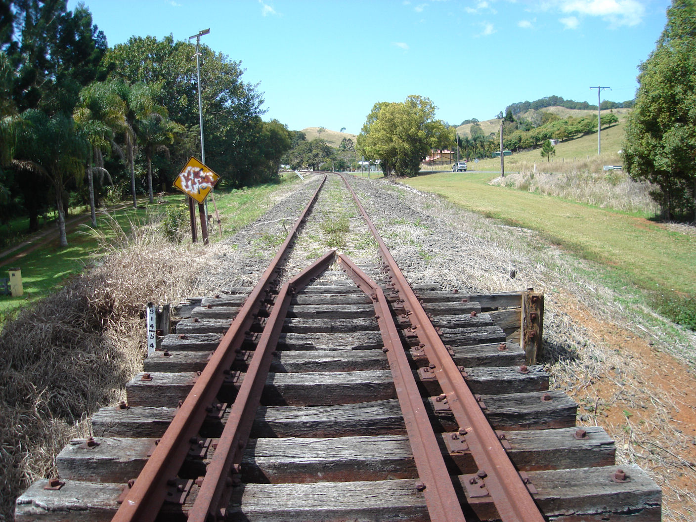 Abandoned Railway Bridge Mooball